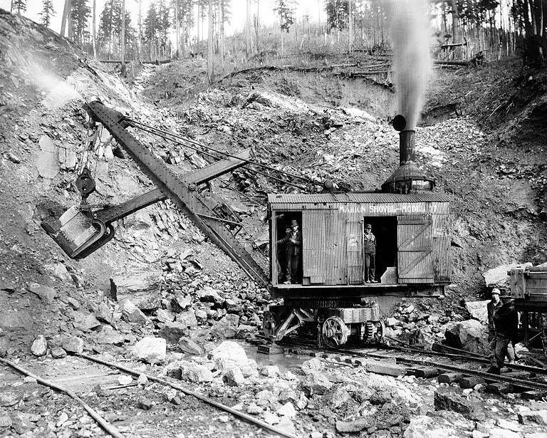 Subjects (LCTGM): Limestone--Washington (State); Limestone; industry--Washington (State); Steam shovels--Washington (State)